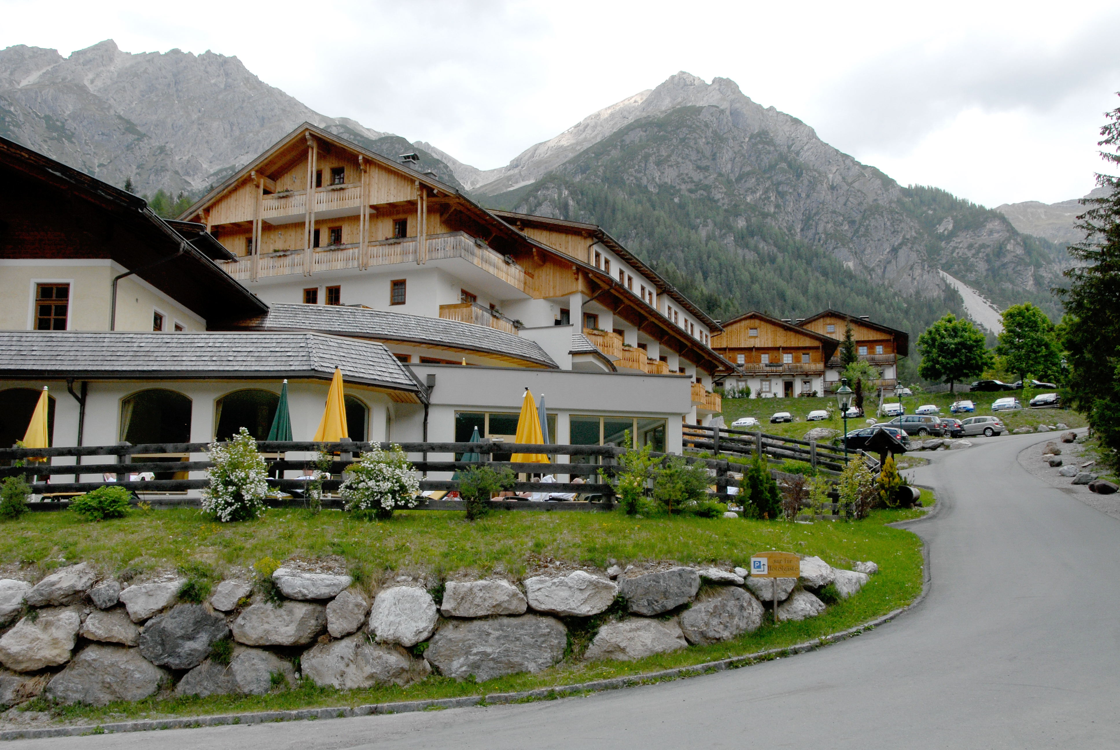 Spa Tuffbad, municipality Lesachtal, district Hermagor, Carinthia / Austria / EU